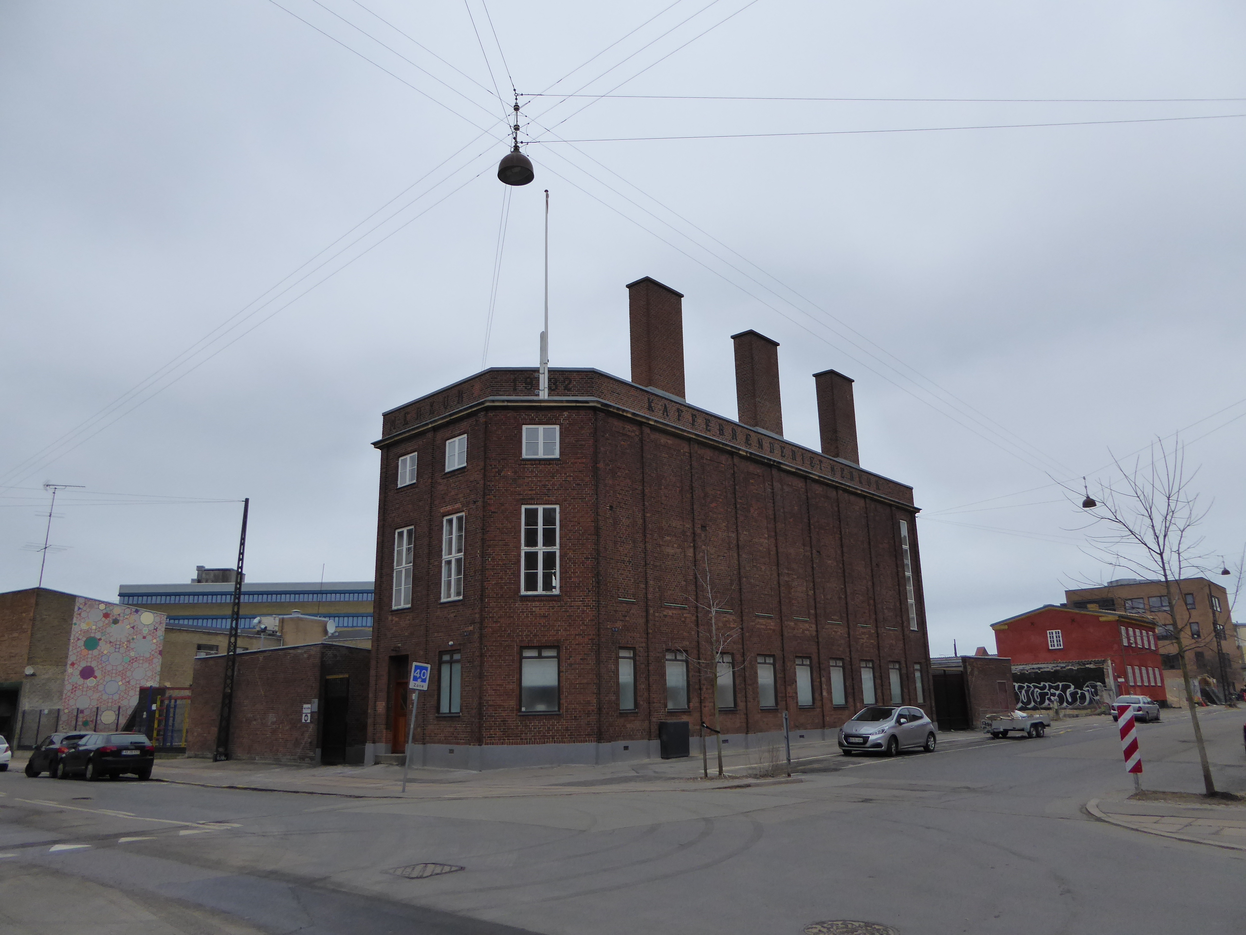 Old coffee factory at Sigurdsgade in Nørrebro in Copenhagen.